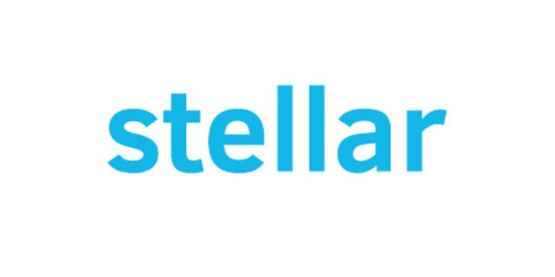 Stellar